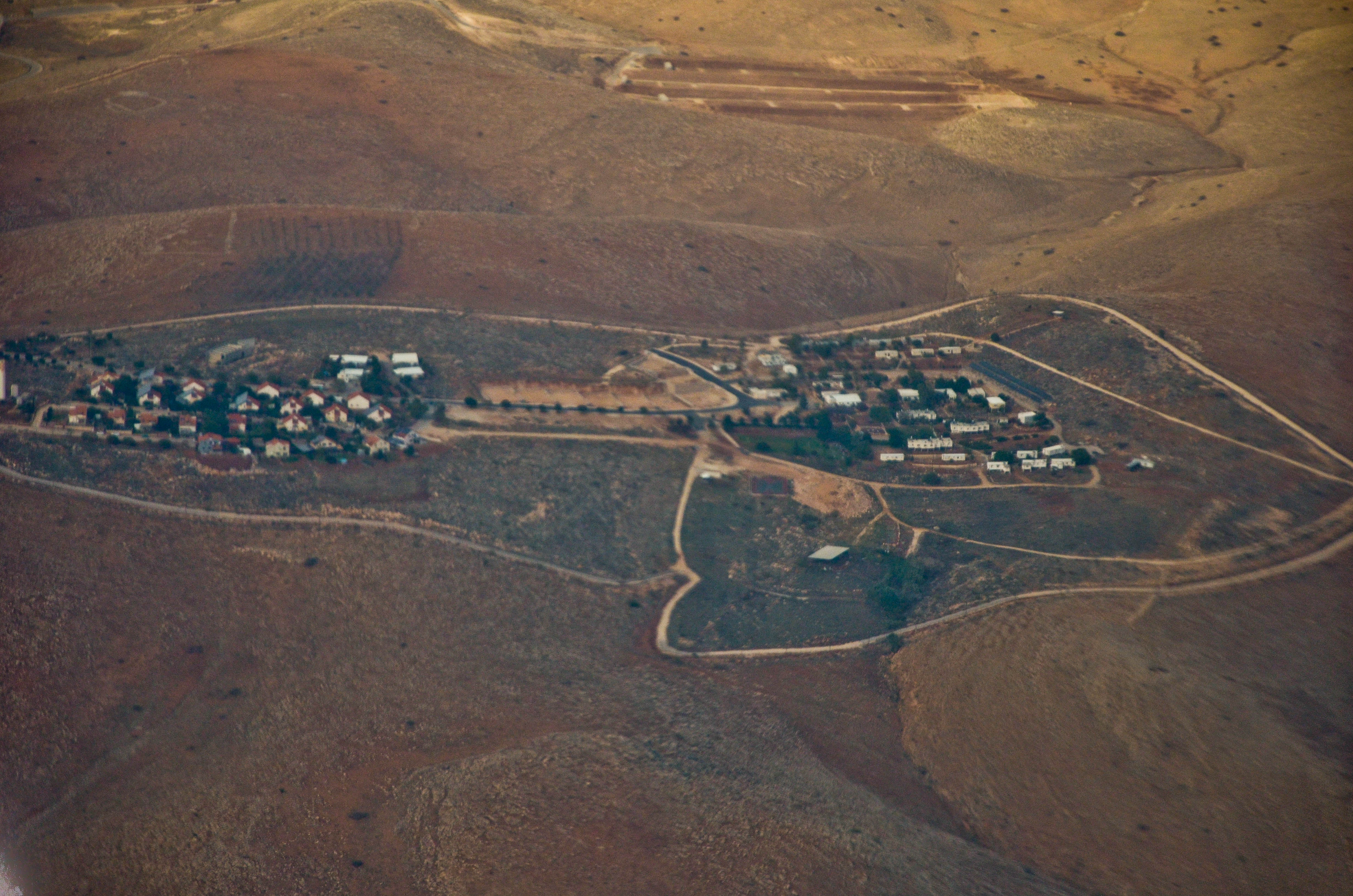 shot taken from plane flown by Ilan maytal